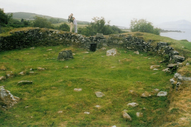 Interior of Kildonan Dun Little but the external walls survive to show how the building would have been used.